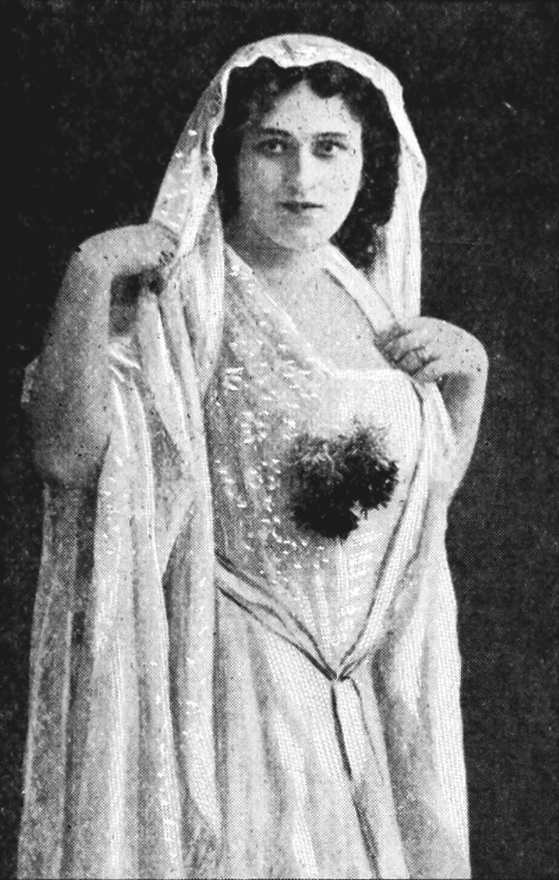 Mozart - Don Giovanni - Margarethe Arndt-Ober as Elvira Title: The Victrola book of the opera : stories of one hundred and twenty operas with seven-hundred illustrations and descriptions of twelve-hundred Victor opera records Year: 1917 (1910s) Authors: Victor Talking Machine Company Rous, Samuel Holland Subjects: Operas Publisher: Camden, N.J. : Victor Talking Machine Co. Text Appearing Before Image: SCOTTI AS DON GIOVANNI 90 VICTROLA BOOK OF THE OPERA — MOZARTS DON GIOVANNI Text Appearing After Image: OBER AS ELVIRA penetrate his disguise. Her father comes to the rescue and is mortally wounded by the Don,who makes his escape, followed by Leporello, his servant. Donna Anna is overcome with grief,and charges her betrothed, Don Ottavio, to avenge her fathers death. SCENE II—An Inn in a Deserted Spot Outside Seville Don Giovanni and Leporello enter and conceal themselves as a lady approaches in a carriage. Hop-ing for a new con-quest, the Don comes forward, hat in hand, but is surprised to find that it is Donna Elvira, a young woman whom he has lately deceived and deserted. She denounces him for his baseness and he makes his escape, leaving Leporello to explain as best he can. Leporello rather enjoys the situation,produces his diary, and adds to the ladys anger byreading a list of the mistresses of the Don. This listis recited by Leporello in the famous nella bionda. Nella bionda (The Fair One) By Marcel Journet, Bass (In Italian) 74191 12-inch, $1.50 Leporello: Evry country, evry to